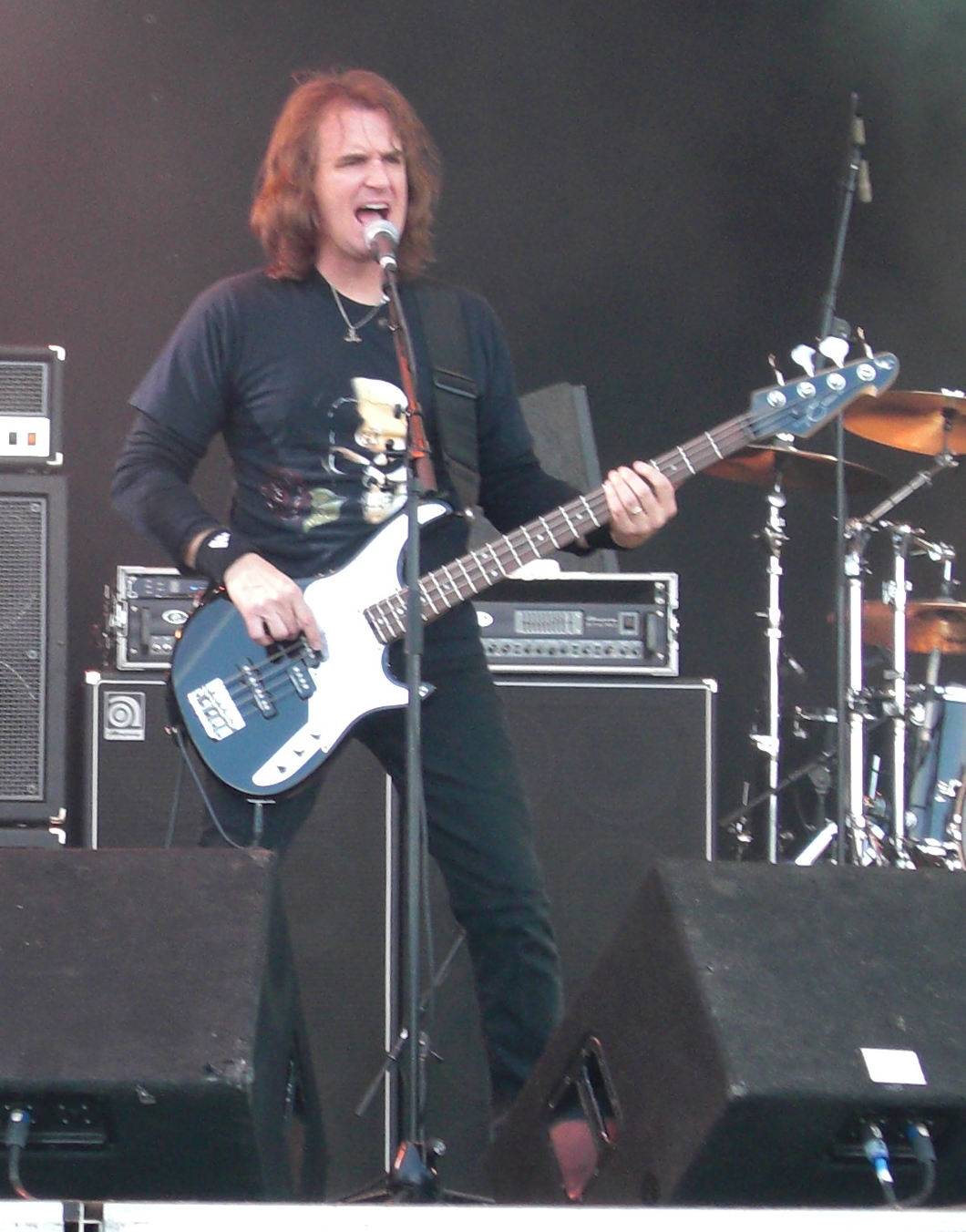 David Ellefson playing with Tim "Ripper" Owens on Sweden Rock Festival 2009